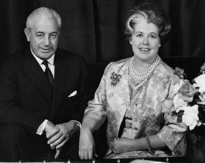 Harold Holt and wife Dame Zara Holt in Canberra, 1950.